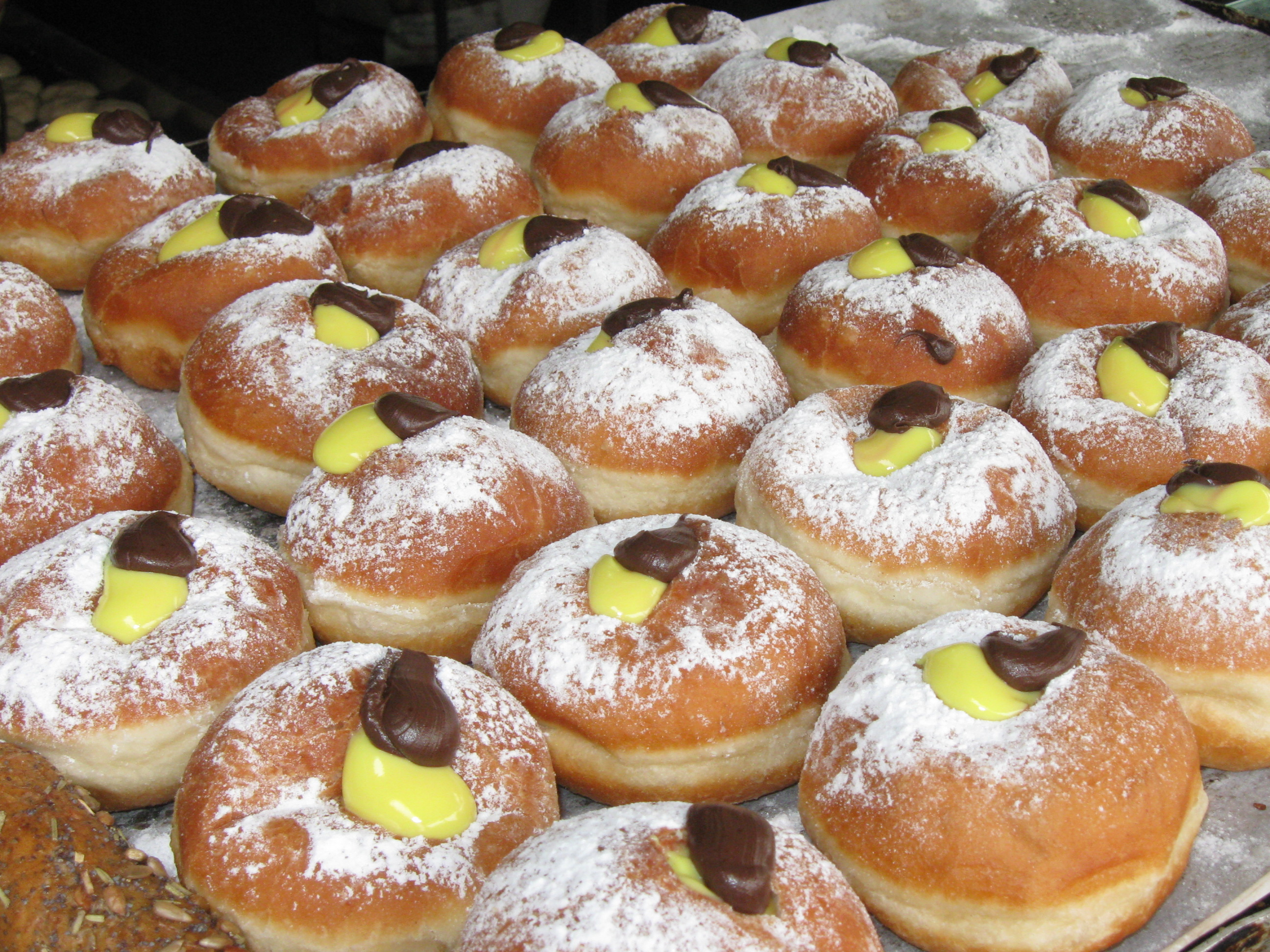 Chocolate and vanilla cream are combined in this sufganiyah creation at Mahane Yehuda Market (shuk) in Jerusalem during Hanukkah.